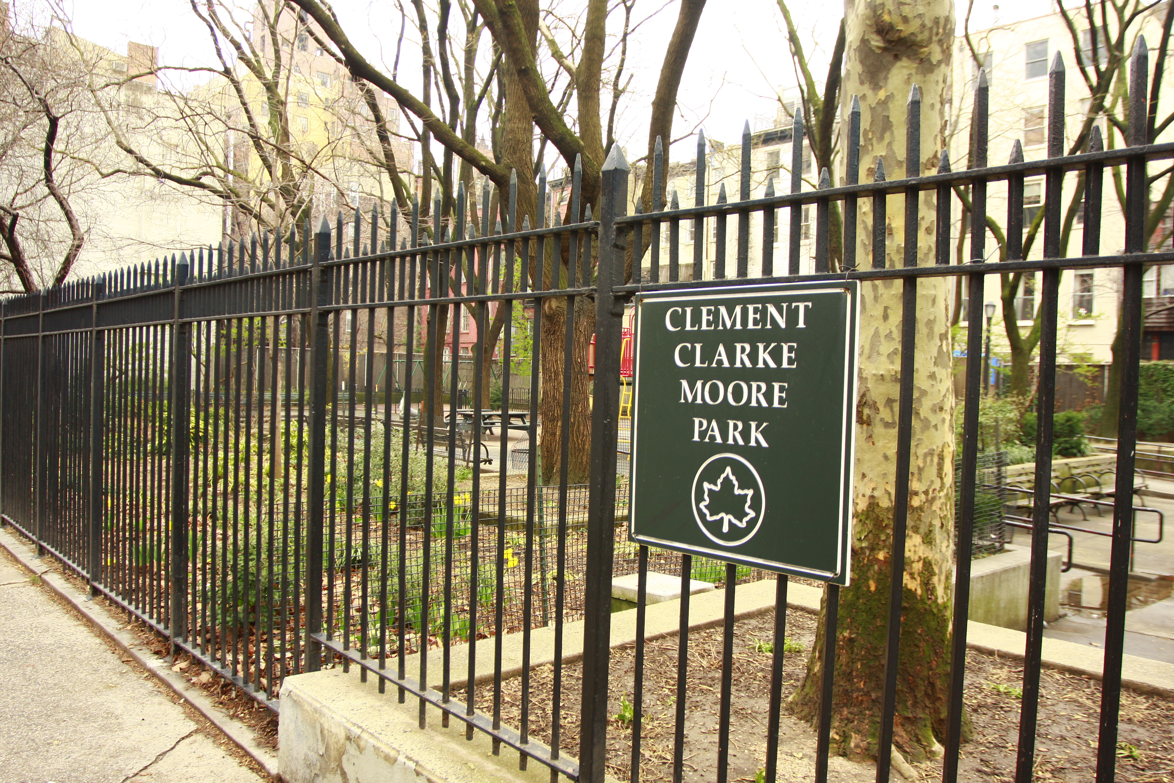 This photo is of Wikipedia Takes Manhattan location code 125, Clement Clarke Moore Park.